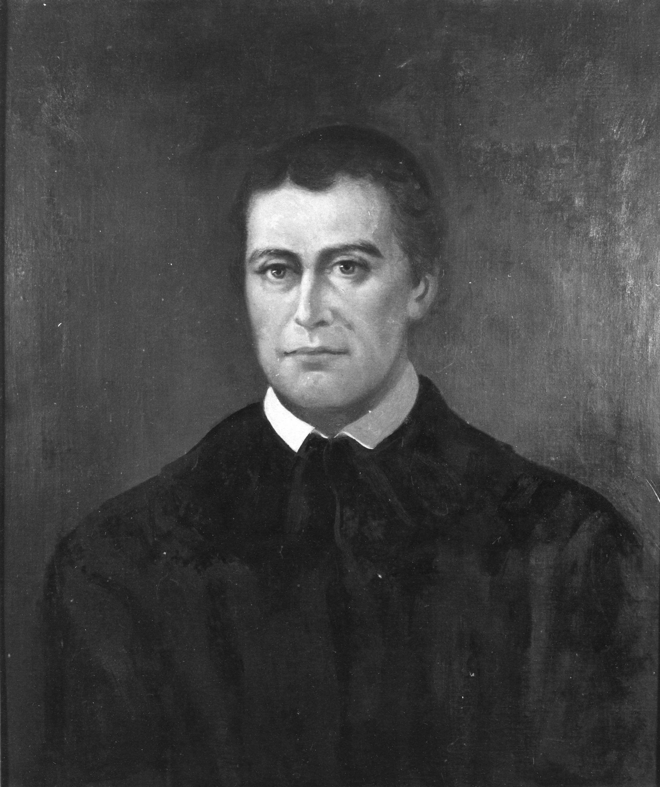 Portrait of Rev. Giovanni Antonio Grassi, president of Georgetown University